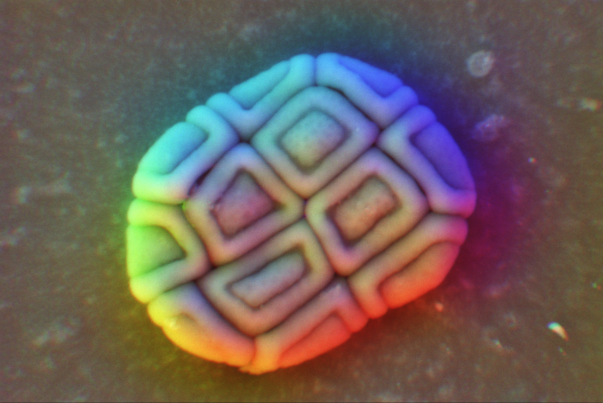 Scanning electron microscope image of a grain of pollen from an acacia flower. This pollen grain is approximately 50 microns long (about half the width of a human hair).